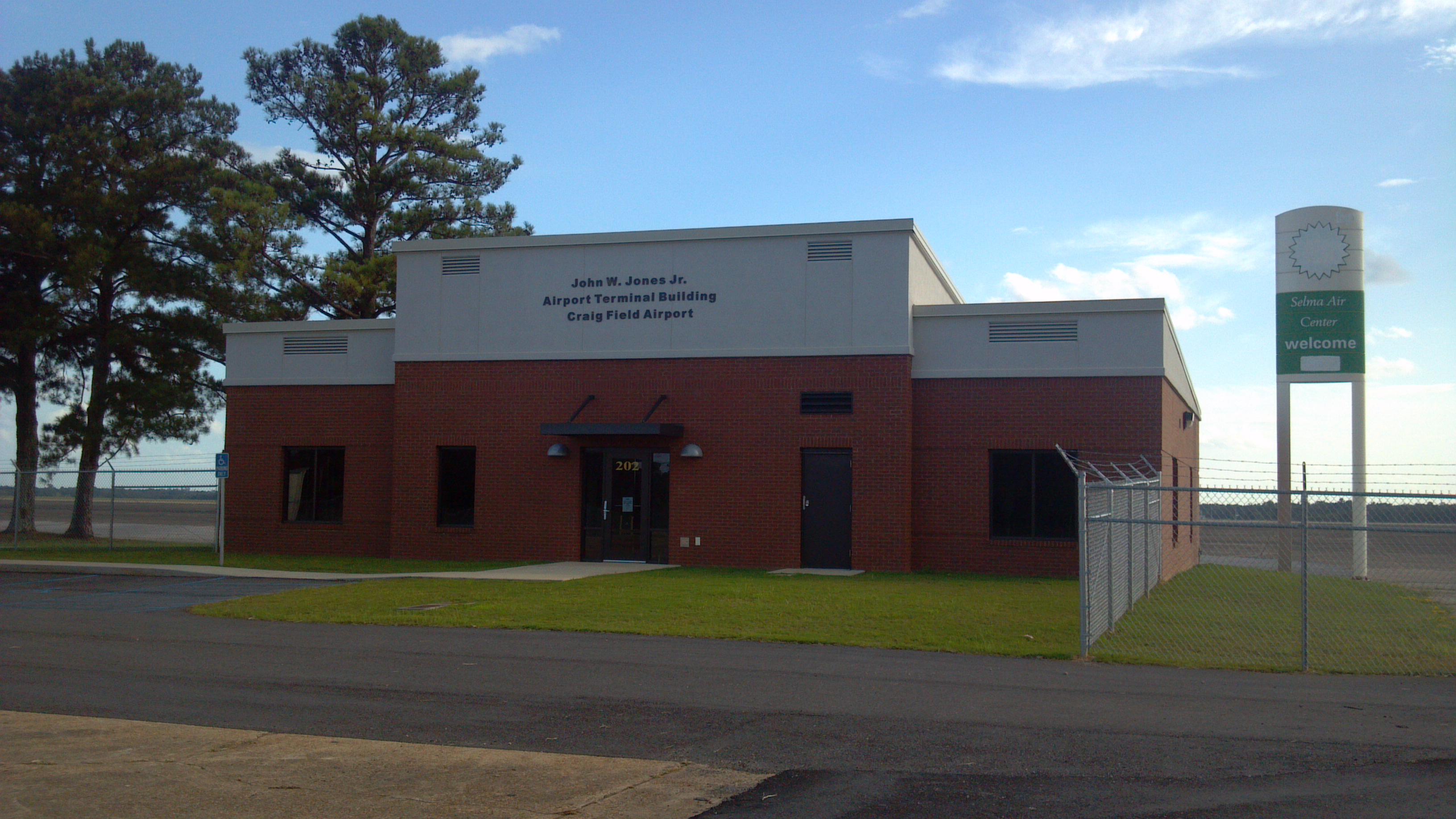 The John W. Jones, Jr. Terminal Building at Craig Field Airport in Selma, Alabama, United States.